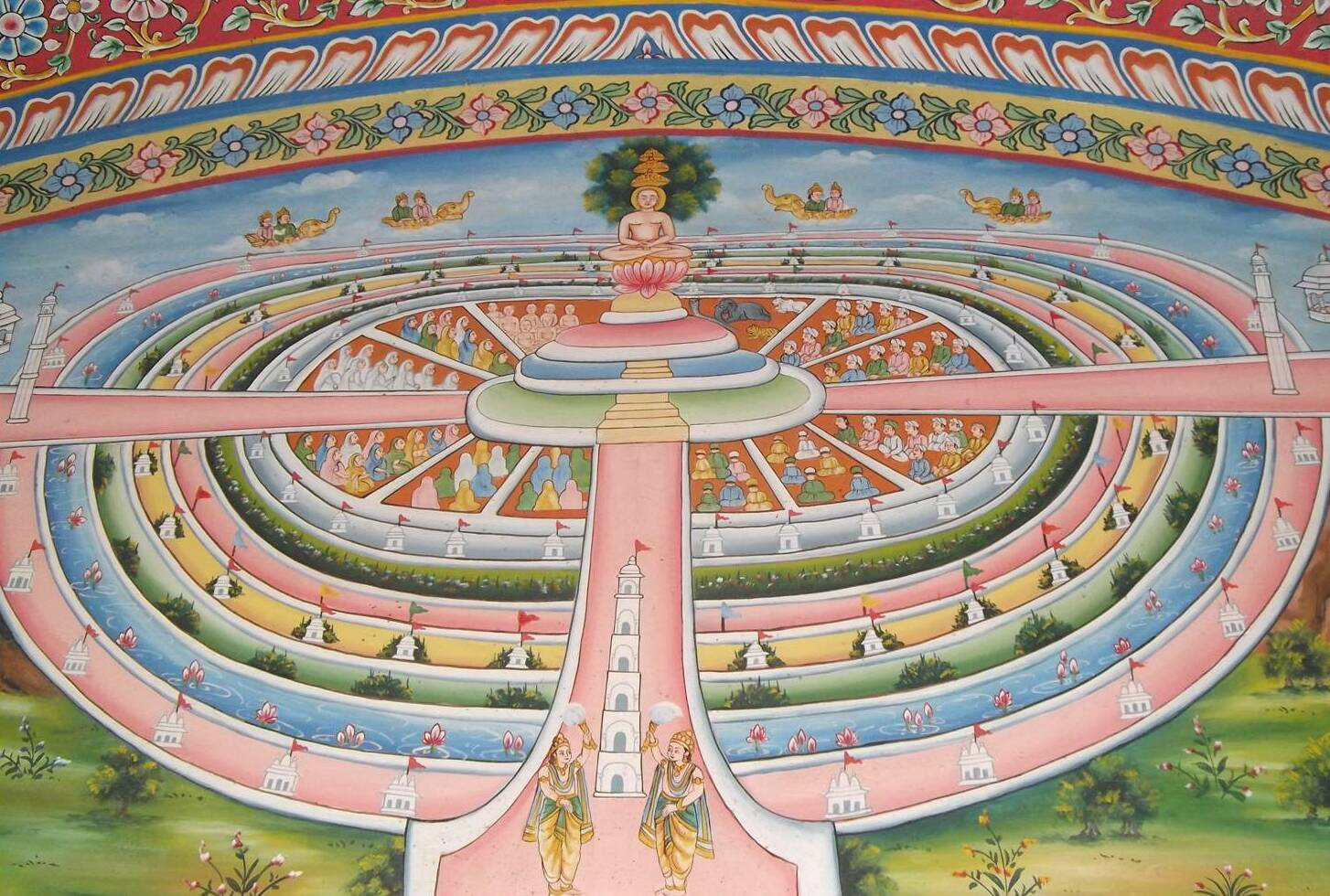 Samavasarana: The natural preaching hall where tirthankara preaches (Photo: Tijara Jain temple)